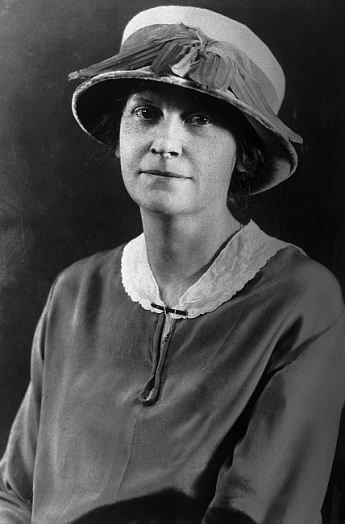 Trotsky's wife Natalia Sedova during her youth [DISPUTED IDENTIFICATION - SEE TALK PAGE]